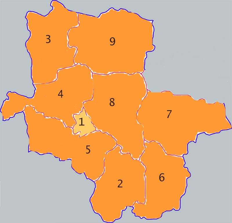 Municipalities of Zhoukou city, China